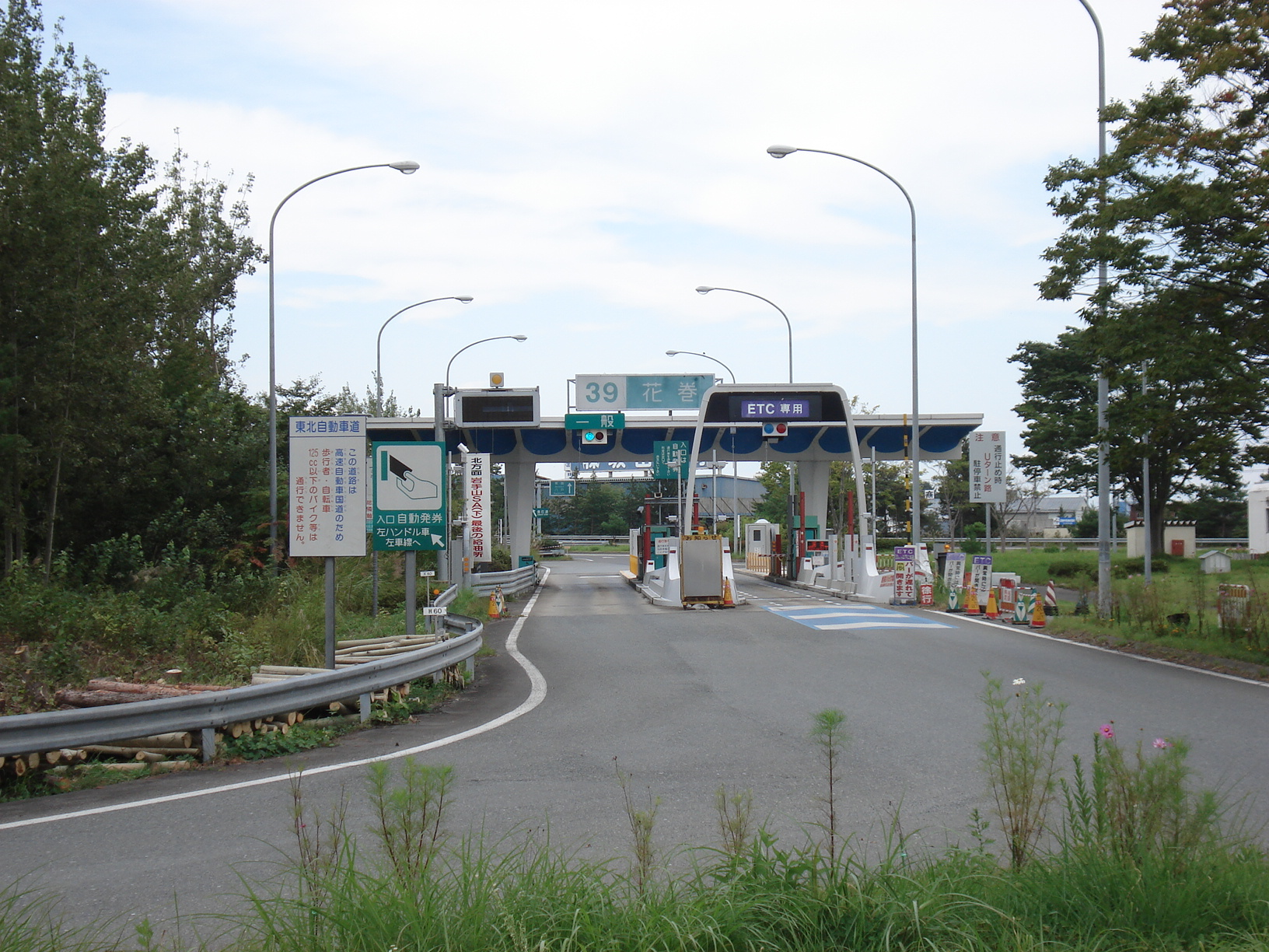 This Interchange, Hanamaki Interchange, is on Tohoku Expressway, in Hanamaki city, Iwate Prefecture, Japan.